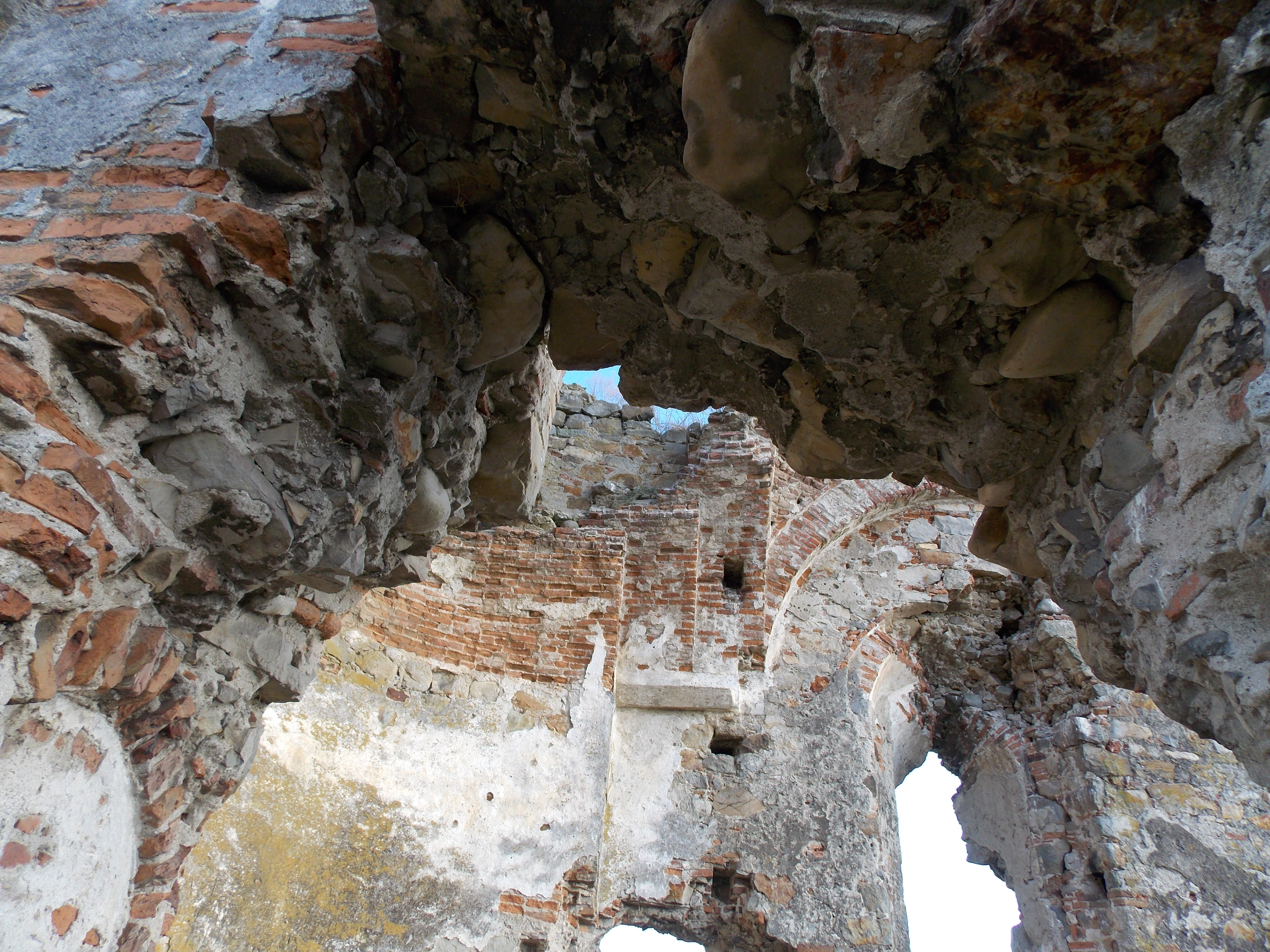 The ruins of the Bociuleşti Monastery (1629); Podoleni village, Neamț County, Romania)